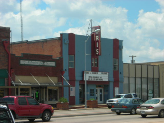 Iris Theater in Terrell, Texas; home to Books and Crannies, the Vagabond players, and North Texas Kenshin Kan Karate